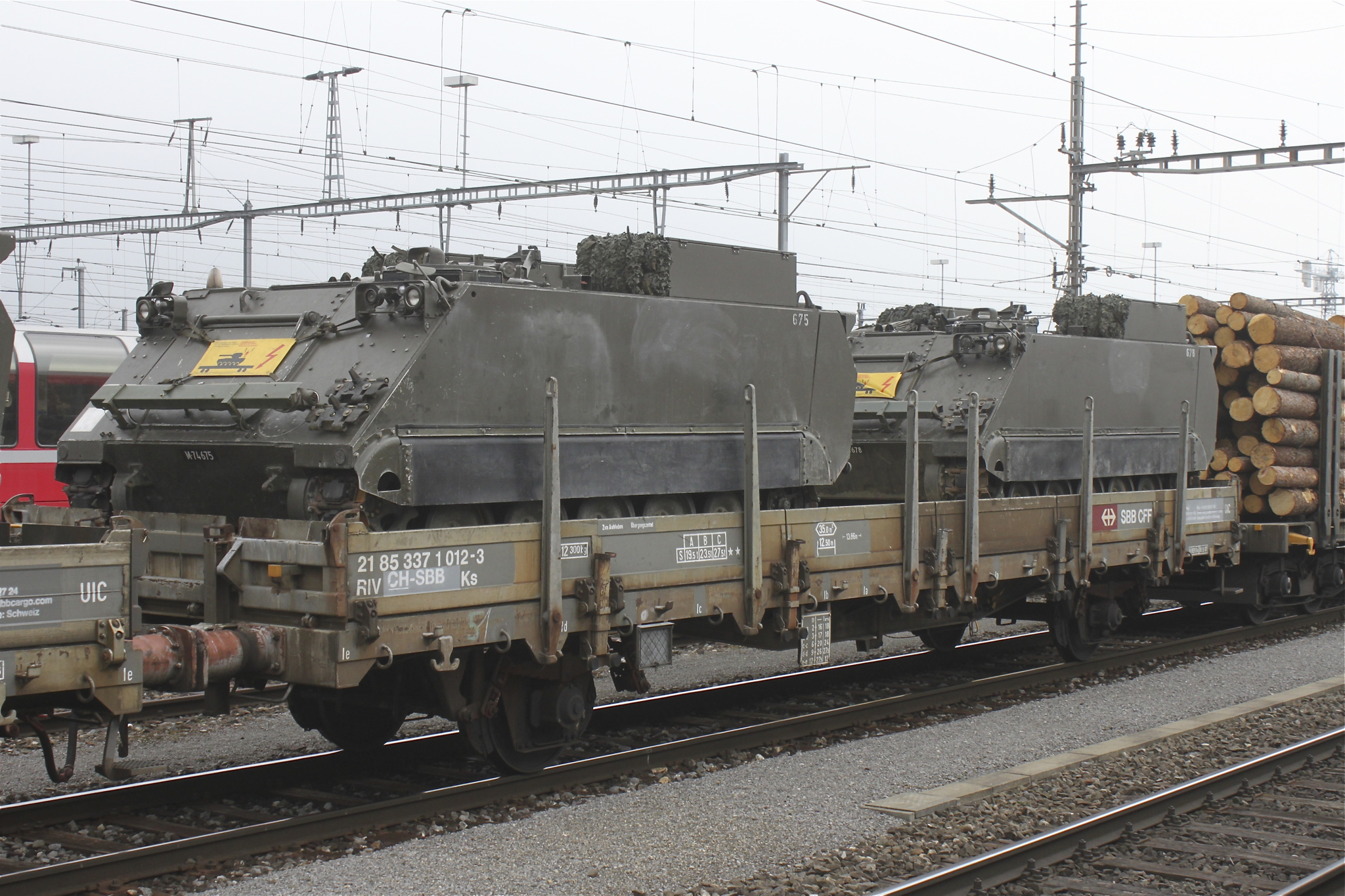 Flat car Ks 21 85 337 1 012-3 CH-SBB loaded with two M113 (Swiss army) at Landquart.